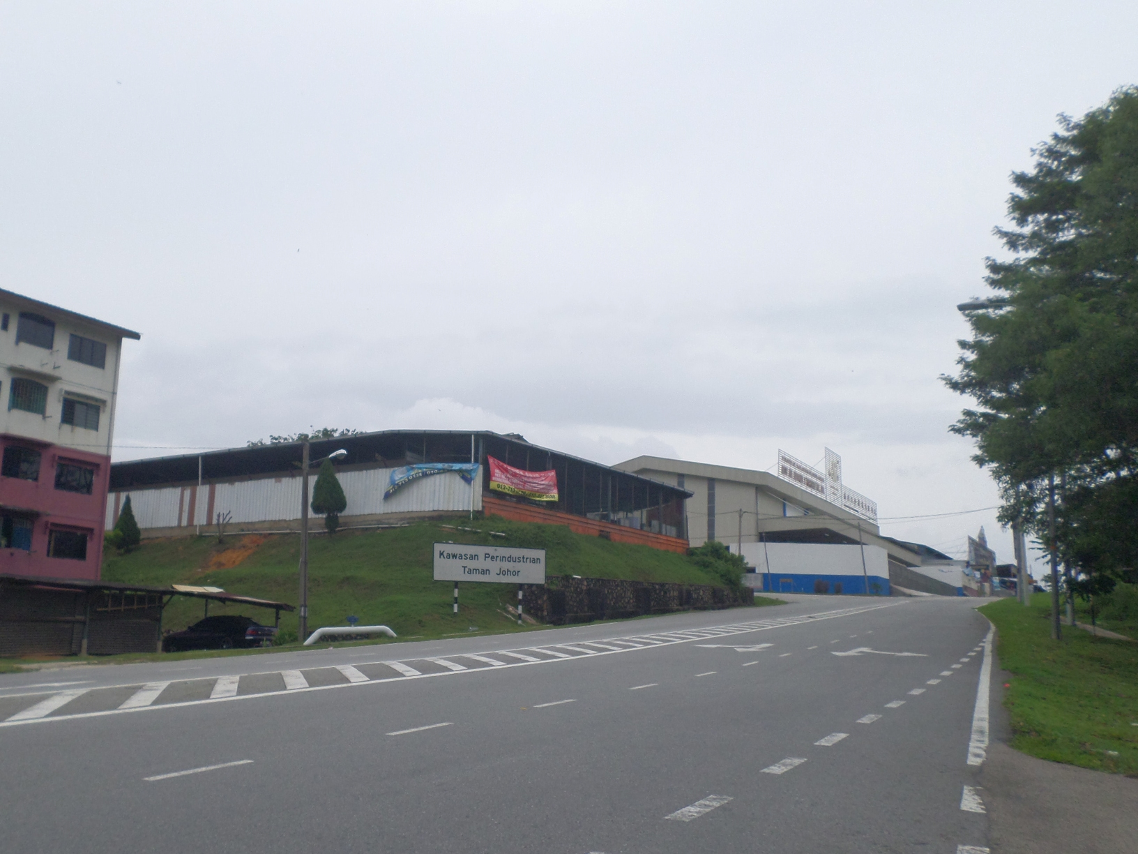 Taman Johor Industrial Area, Kempas, Johor Bahru, Johor, Malaysia